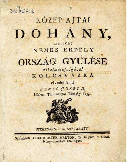 József Benkő: Közép-ajtai dohány (front page)